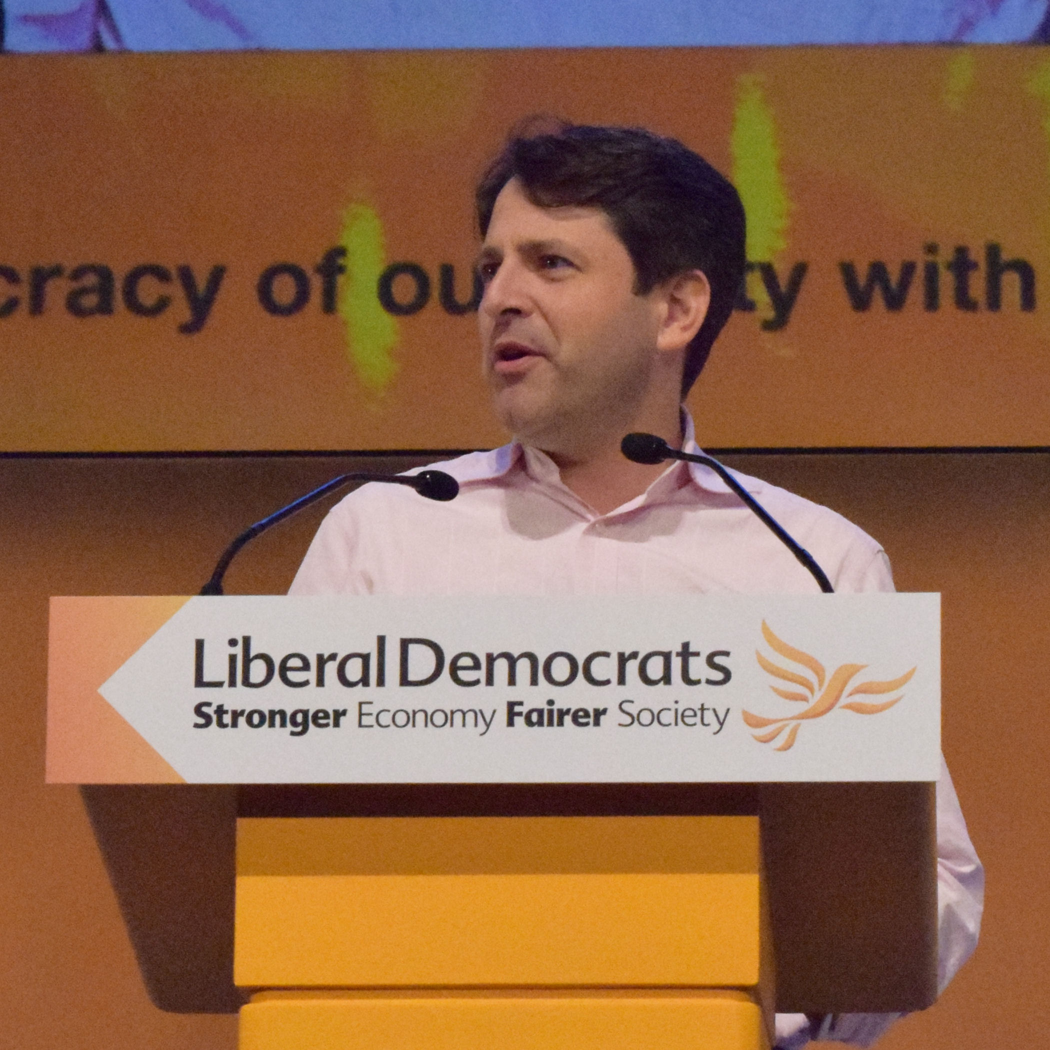 Duncan Hames speaking at a Liberal Democrat conference in the Clyde Auditorium, Glasgow, 2014.